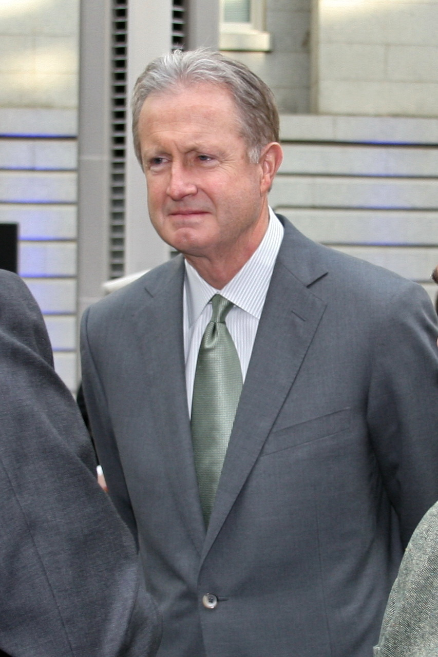 James Albaugh is president and chief executive officer of Boeing Integrated Defense Systems and serves on the company's Executive Council.